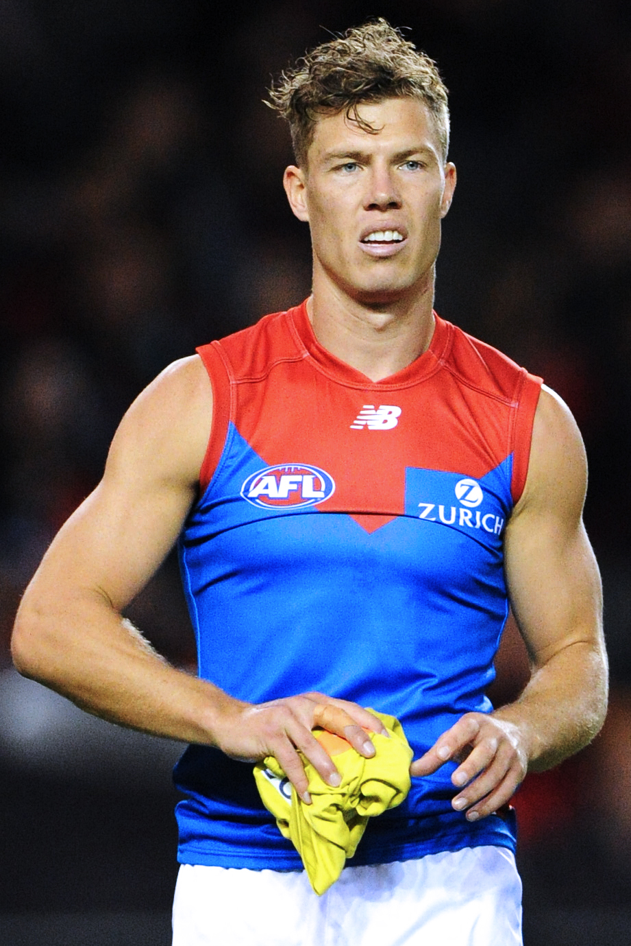 Jake Melksham of Melbourne during the 2018 AFL round 6 match between Essendon and Melbourne at Etihad Stadium on Sunday, 29 April 2018 in Melbourne, Victoria.